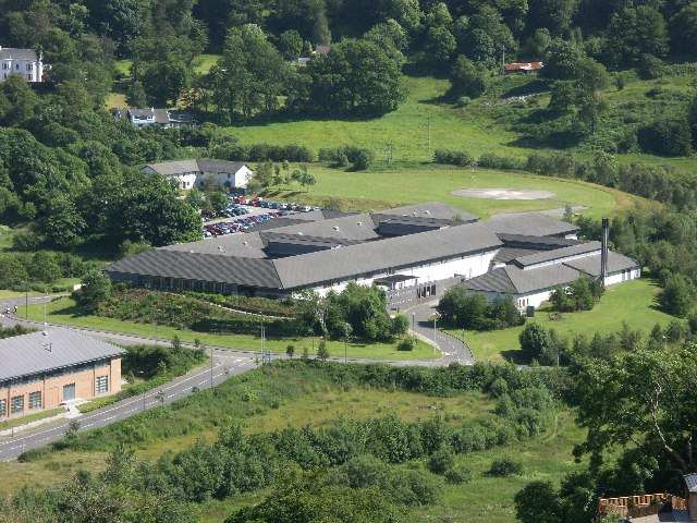 Lorne and Islands District General Hospital in Oban. Photographed from around NM 85345 29130